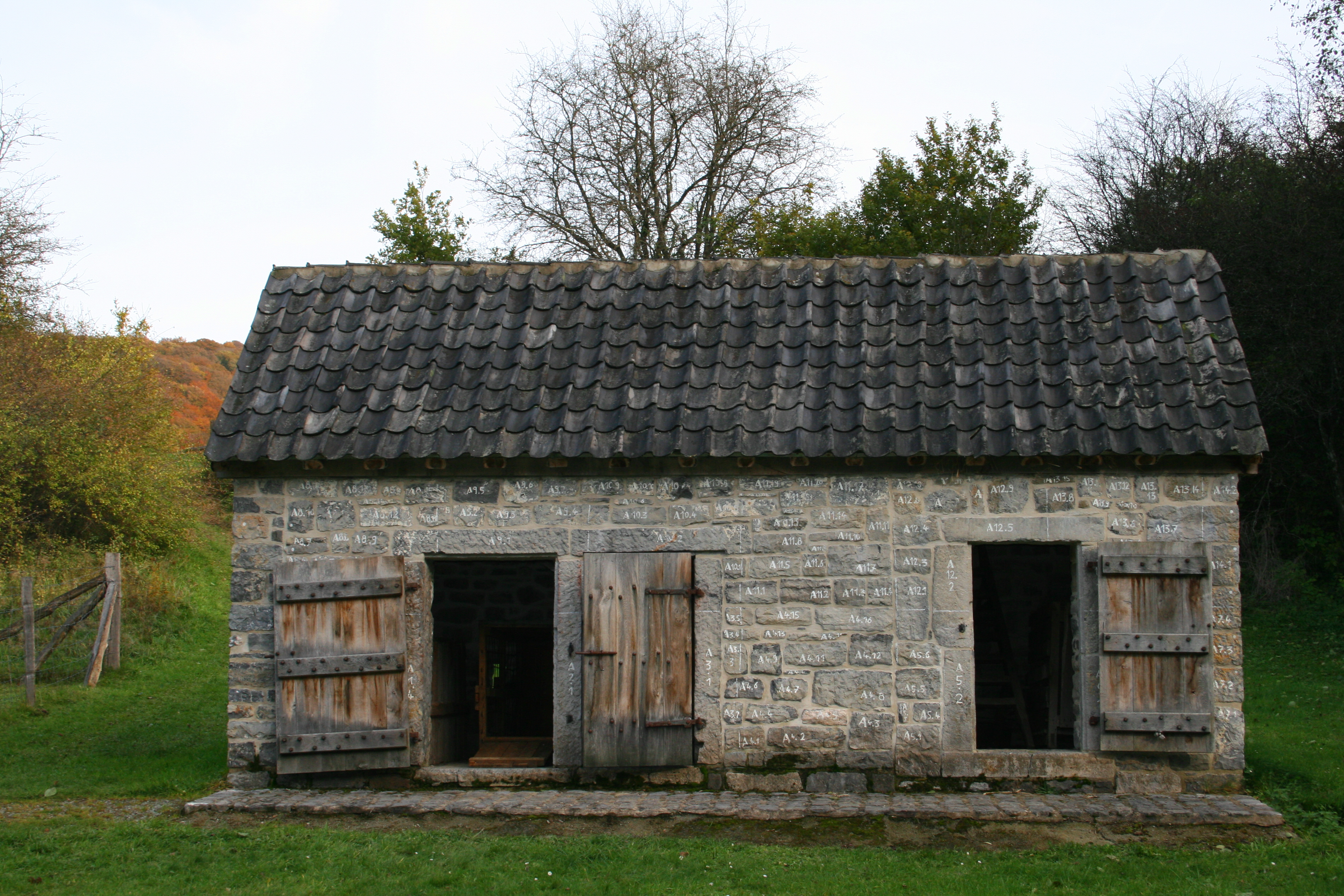 Previous pigsty of Forrières - St. Michael's Furnace property – Museum of Country Life in Wallonia in Saint-Hubert (Belgium).